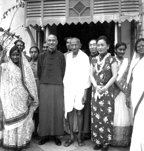 10 Feb 1942, Generalissimo Chiang Kai-Shek, Head of China, and First Lady Madame Chiang visited India. The couple were welcomed by the host Mahatma Gandhi in front of his home. The photo was taken by the Republic of China Government on 10 Feb 1942. The copyright has been expired after 50 years.